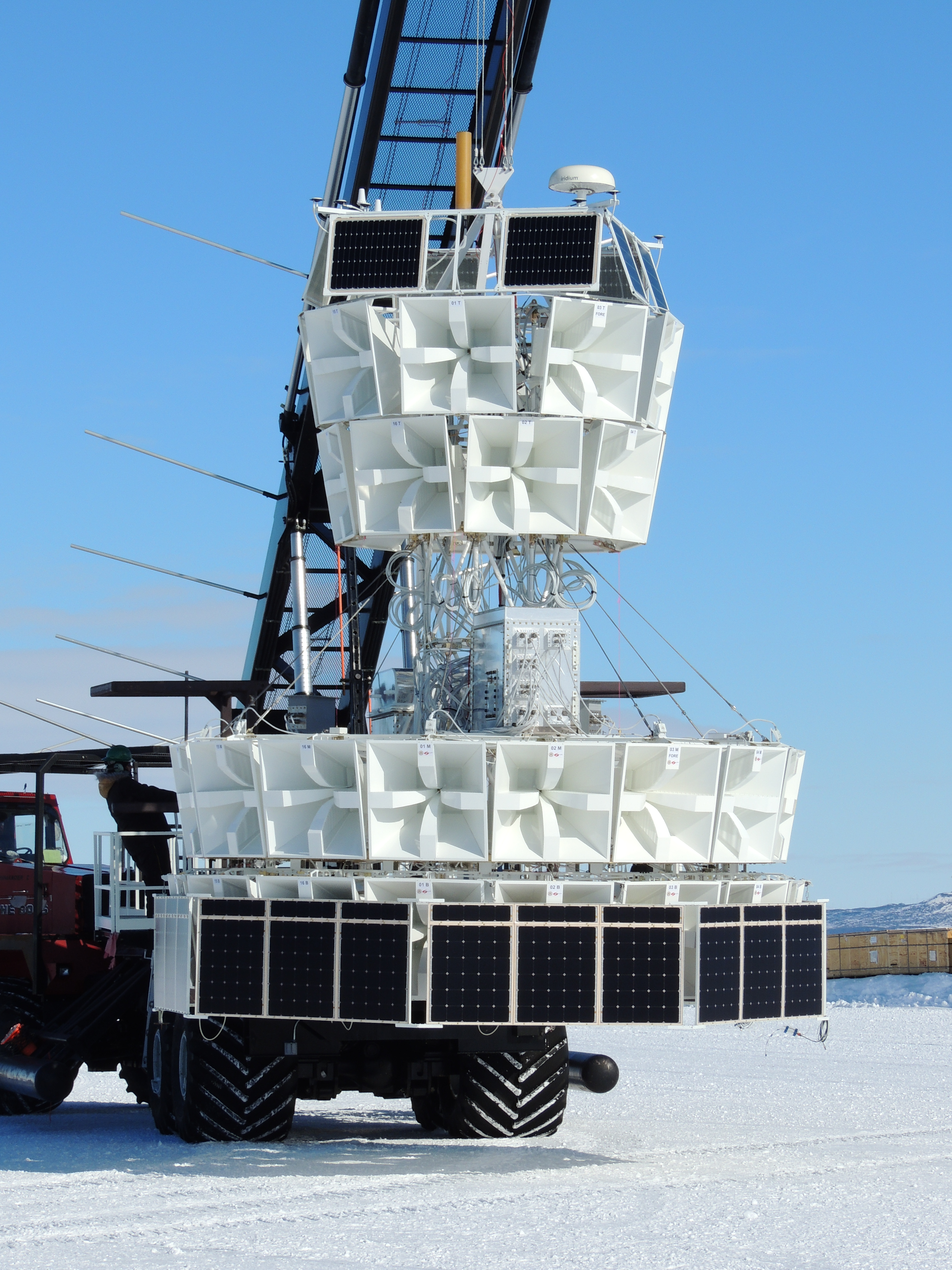 ANITA-4 prior to launch